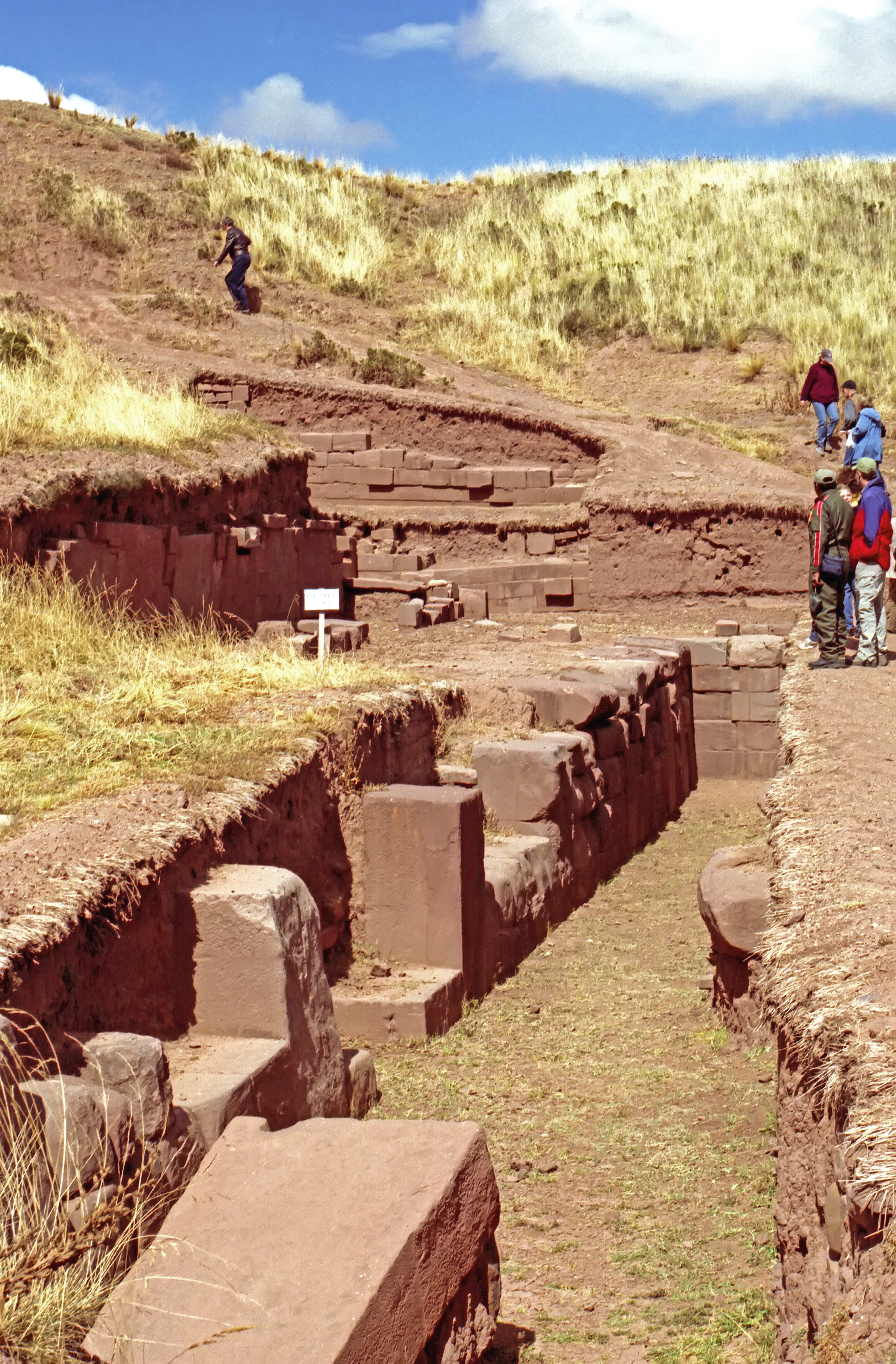 Tiwanaku - Pyramid of Akapana was the largest building in the religious complex. Pottery found at the site that has been carbon dated to 1580 BC. Tiwanaku was settled by 400 AD on the Bolivian side of Lake Titicaca. The main center developed into a bustling city, constructed with many terraced platform pyramids, courts and urban centers over 2.31 sq. miles. It is thought that after 80 years of drought that the area was deserted by the leaders and aristocracy to look for a better area. It is thought that Manco Kapac and Mama Ocllo probably that last leaders of Tiwanaku culture, founded a new Empire on the Island f the Sun and continued to the northern regions and finally to the Valley of Cuzco. Tiwanaku, Bolivia